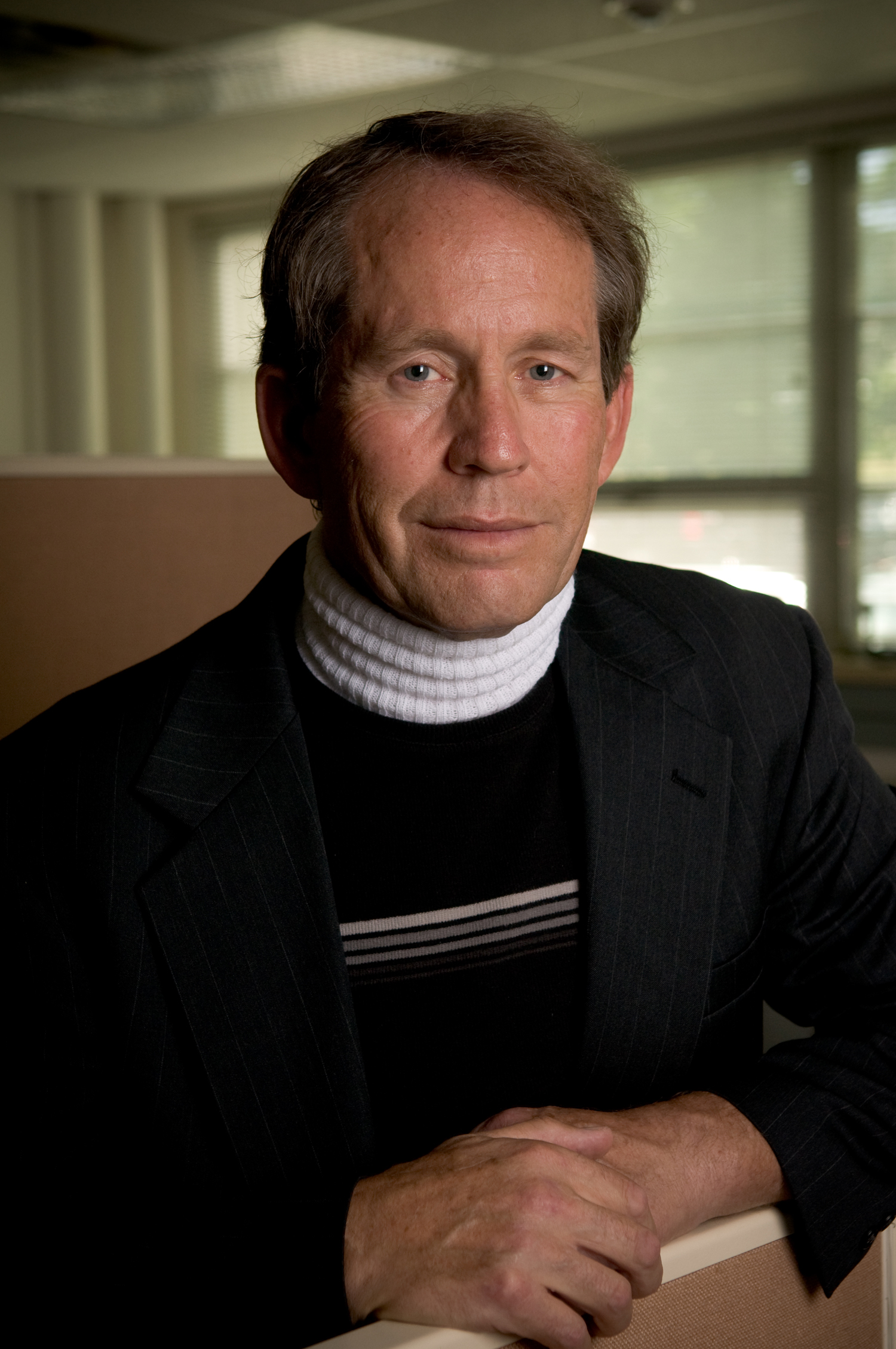 Portrait of James C. Bergquist. Credit: NIST Disclaimer: Any mention of commercial products within NIST web pages is for information only; it does not imply recommendation or endorsement by NIST. Use of NIST Information: These World Wide Web pages are provided as a public service by the National Institute of Standards and Technology (NIST). With the exception of material marked as copyrighted, information presented on these pages is considered public information and may be distributed or copied. Use of appropriate byline/photo/image credits is requested.